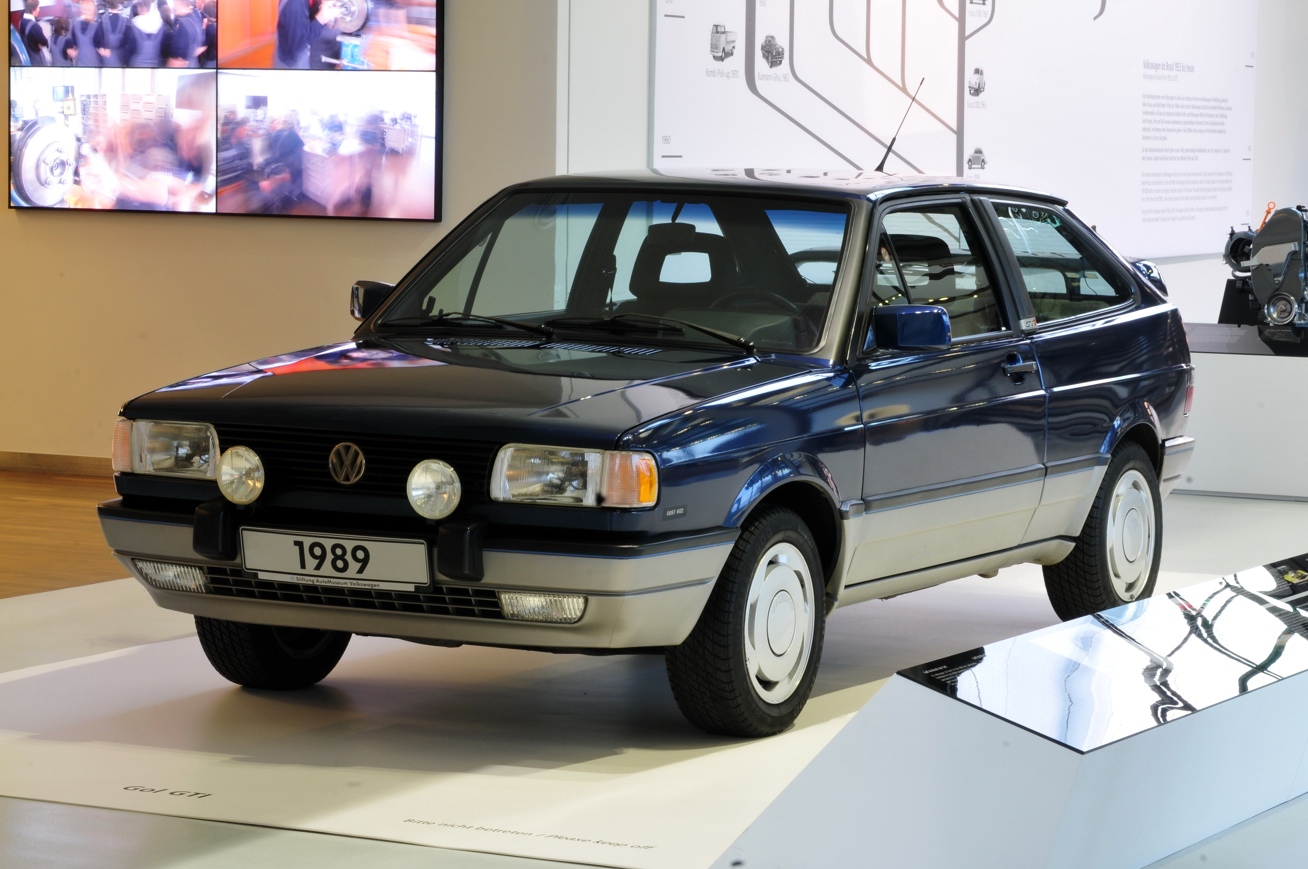 1989 Volkswagen Gol GTi in the ZeitHaus, Autostadt Wolfsburg